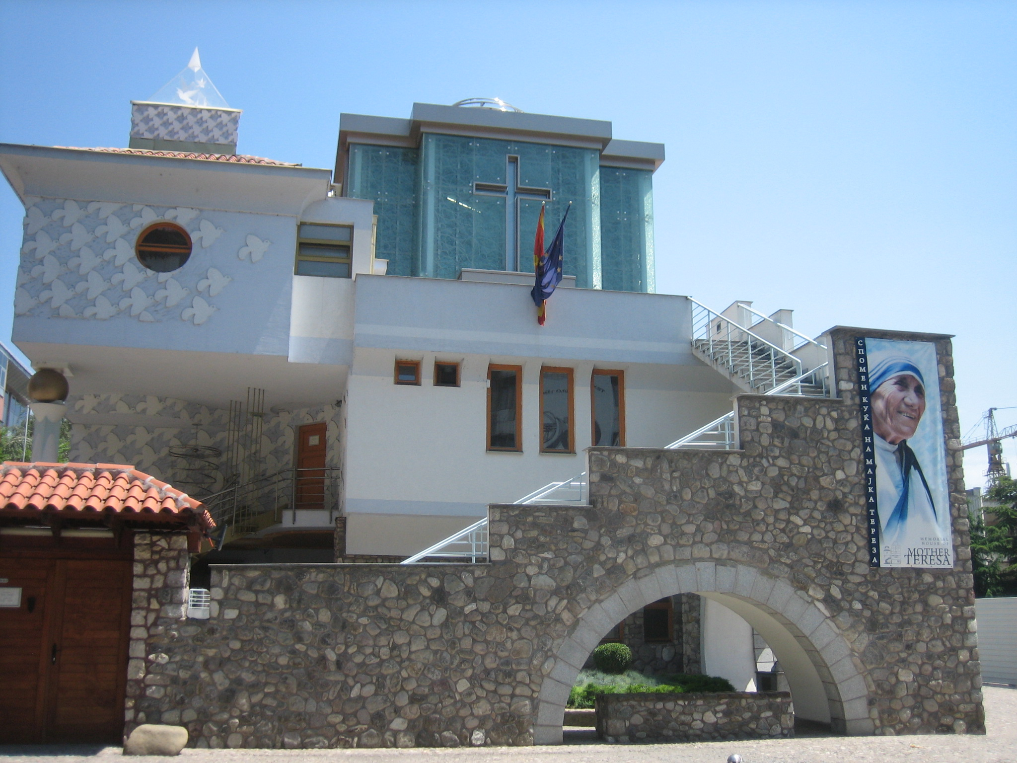 It's built over the remains of the church where she was baptized. It contains a small museum with artifacts from her life.